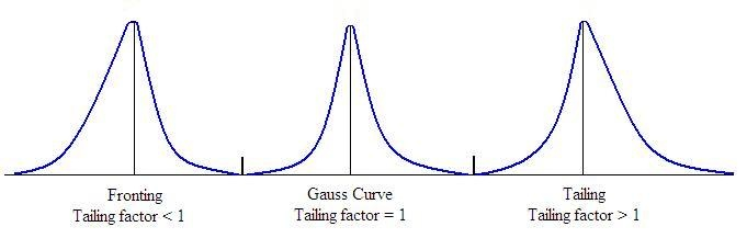 A tailing and fronting peak, with a gauss curve